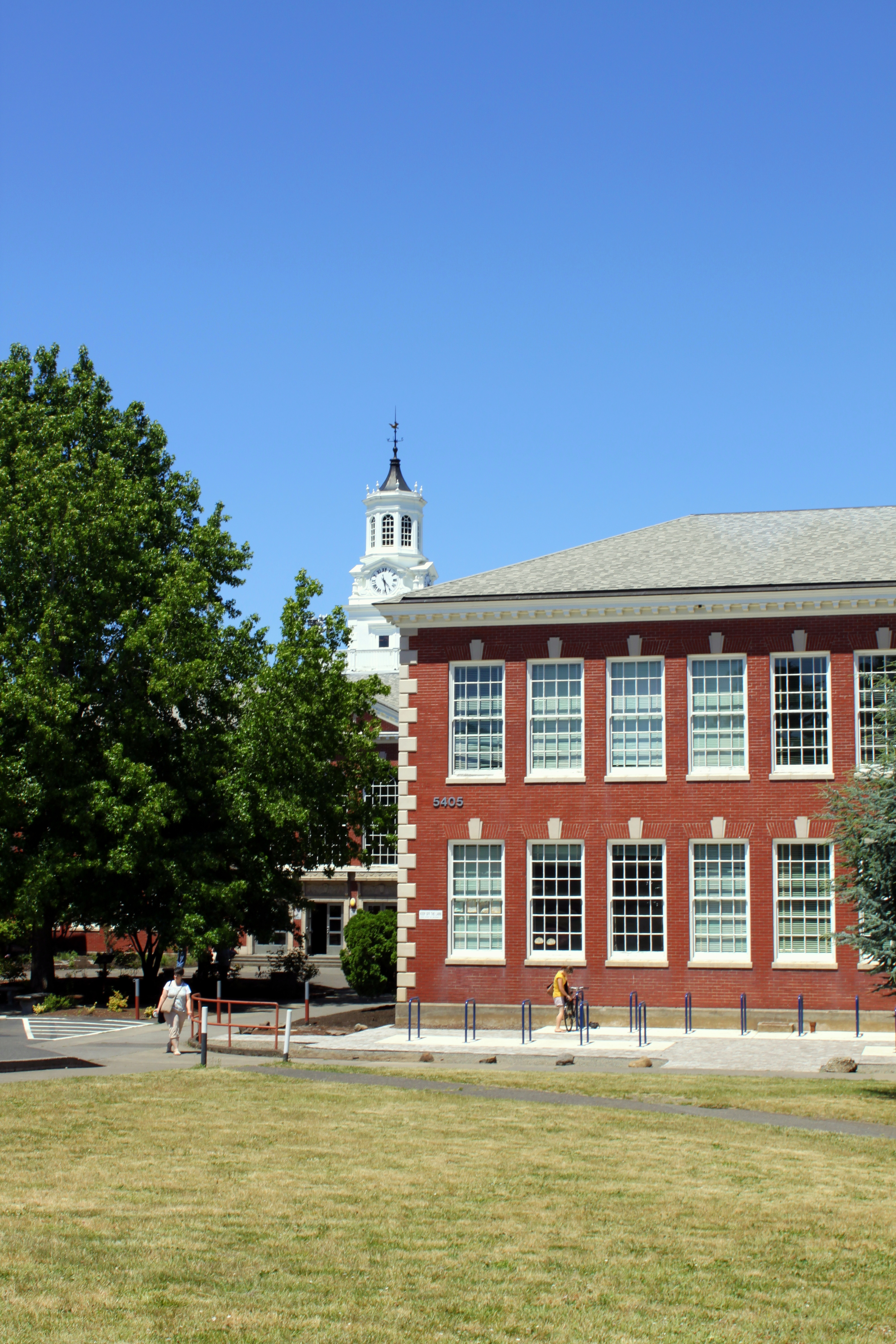 Franklin High School (Portland, Oregon) in Portland, Oregon.